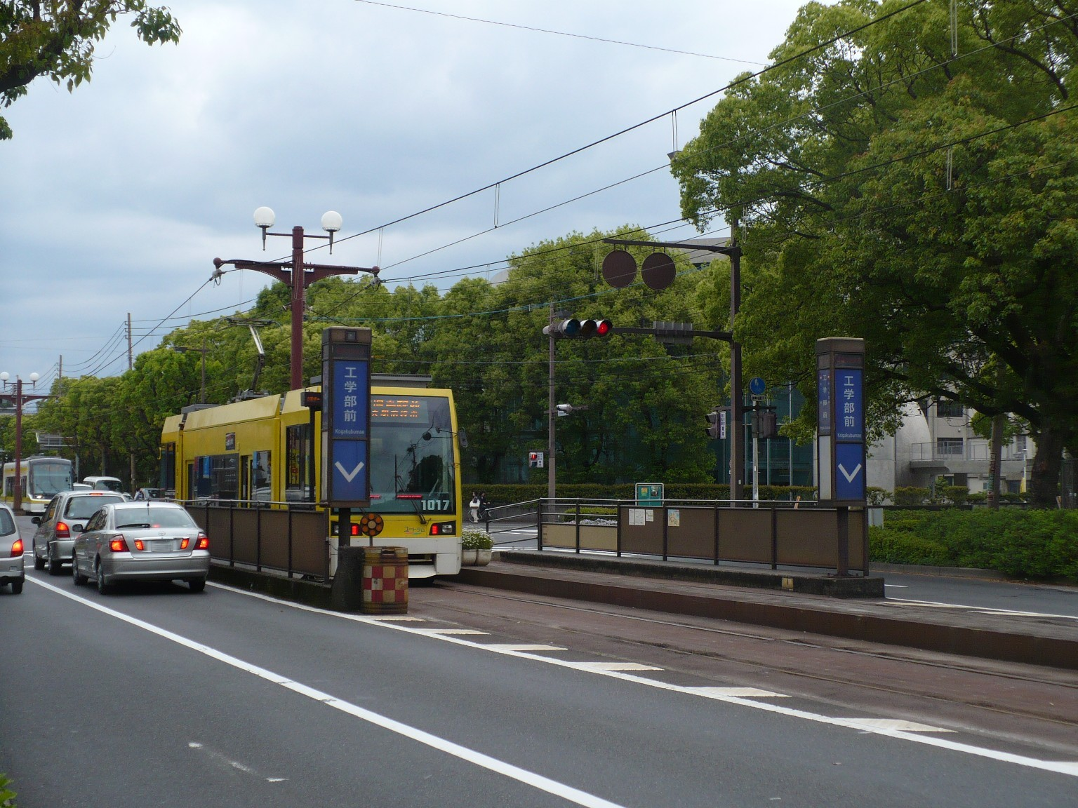 Kogakubumae tramstop of Kagoshima city transportation bureau, Kagoshima city Kagoshima prefecture Japan.